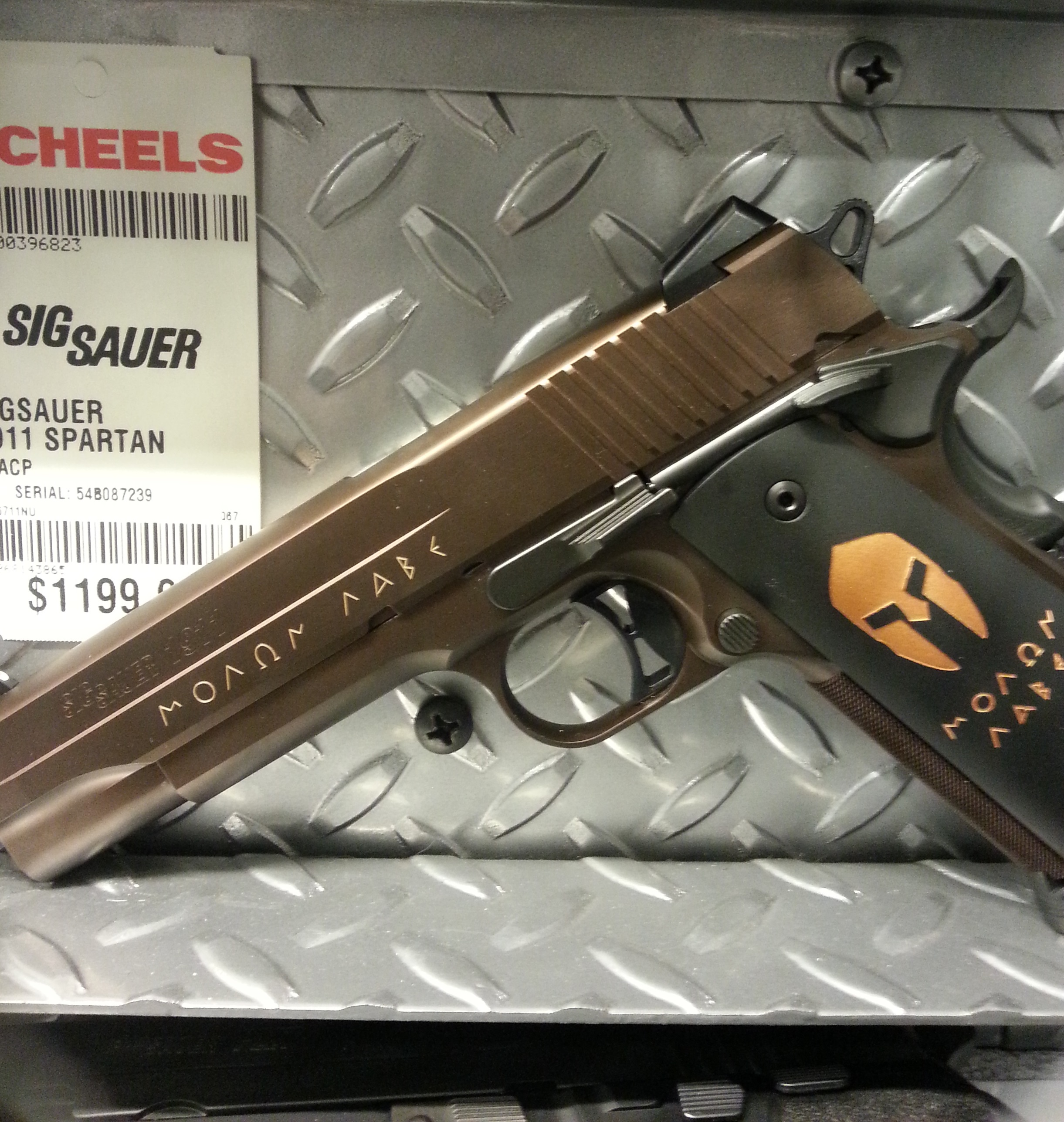 SIG Sauer 1911 "Spartan" in 45 ACP (1911-45-SPARTAN) on sale in a Scheels gun shop in 2015 (price tag USD 1199). The Sig Sauer 1911 Spartan model was introduced in 2012. It is no longer in production, having been replaced by the successor model "Spartan II" in 2019. The grip plate and slide are inscribed with the Greek motto "Molon Labe" which had become popular in US gun rights activism beginning in the late 1990s.